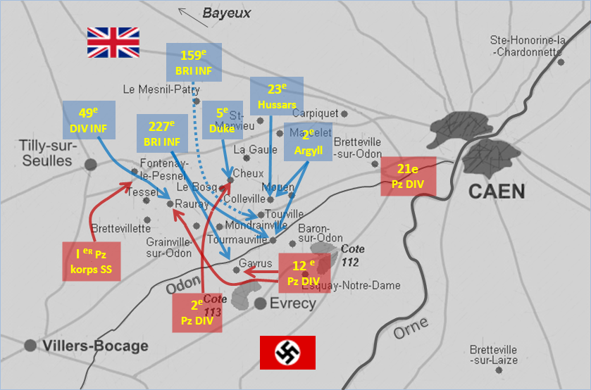 Operation Epsom main movements on 1944, June 27